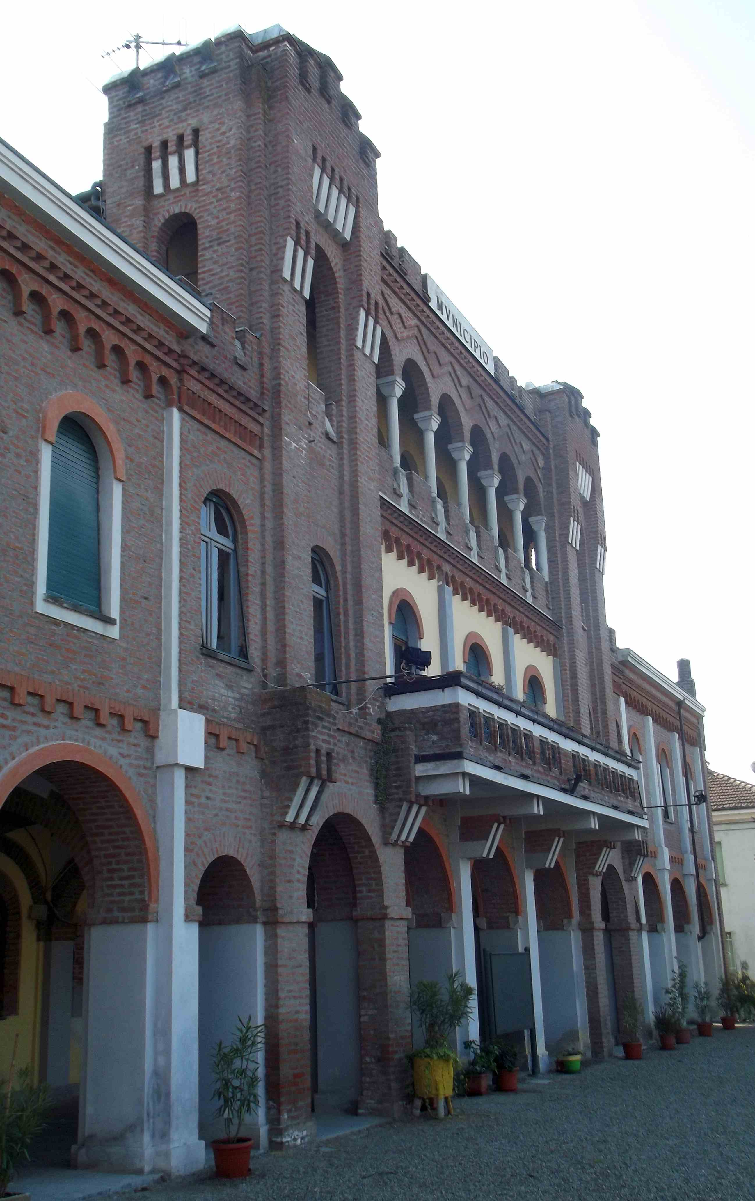 Sezzadio (AL): town hall